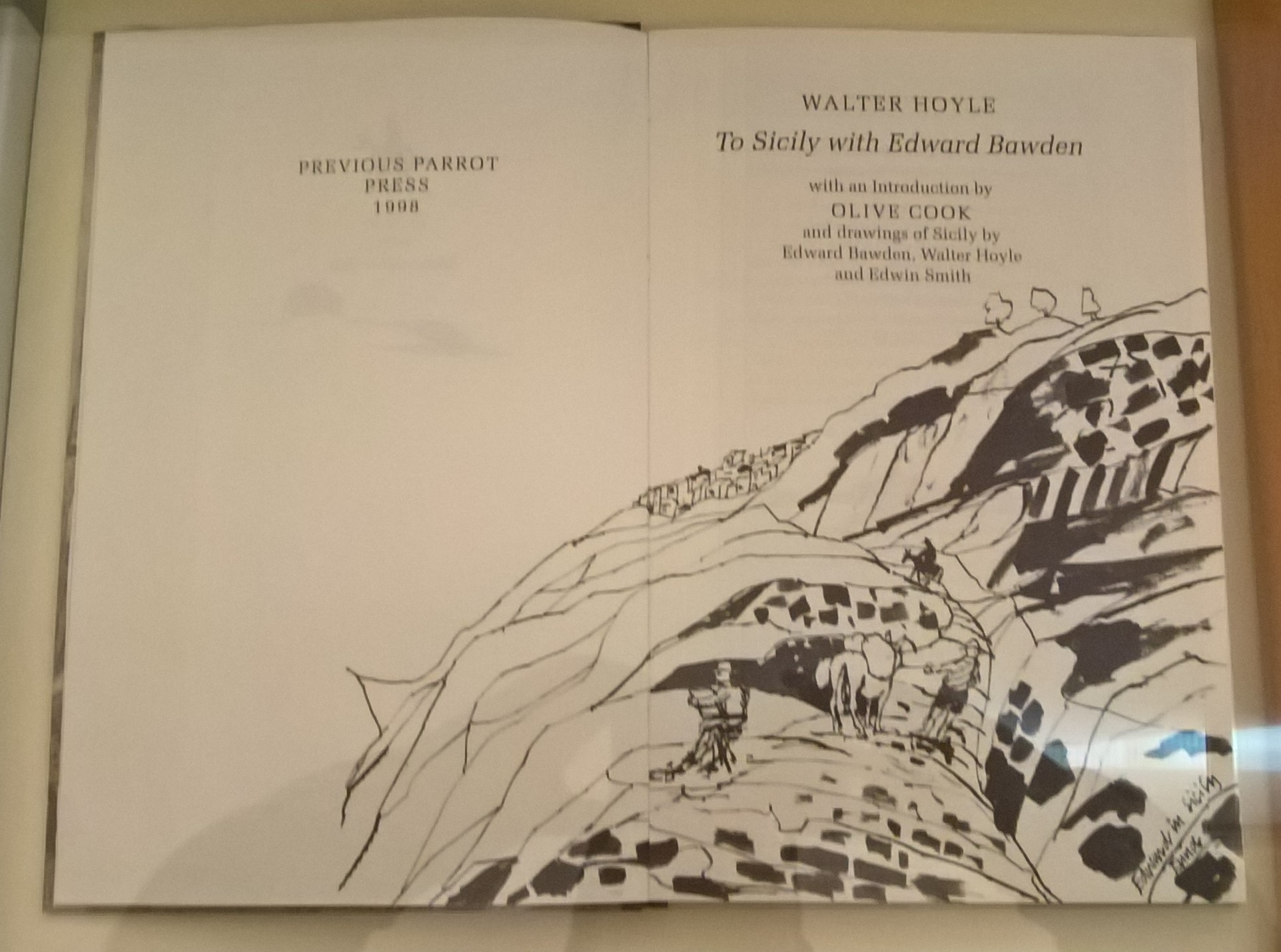 Photo of a Copy of the limited edition book 'To Sicily with Edward Bawden' by Walter Hoyle at the Fry Art Gallery